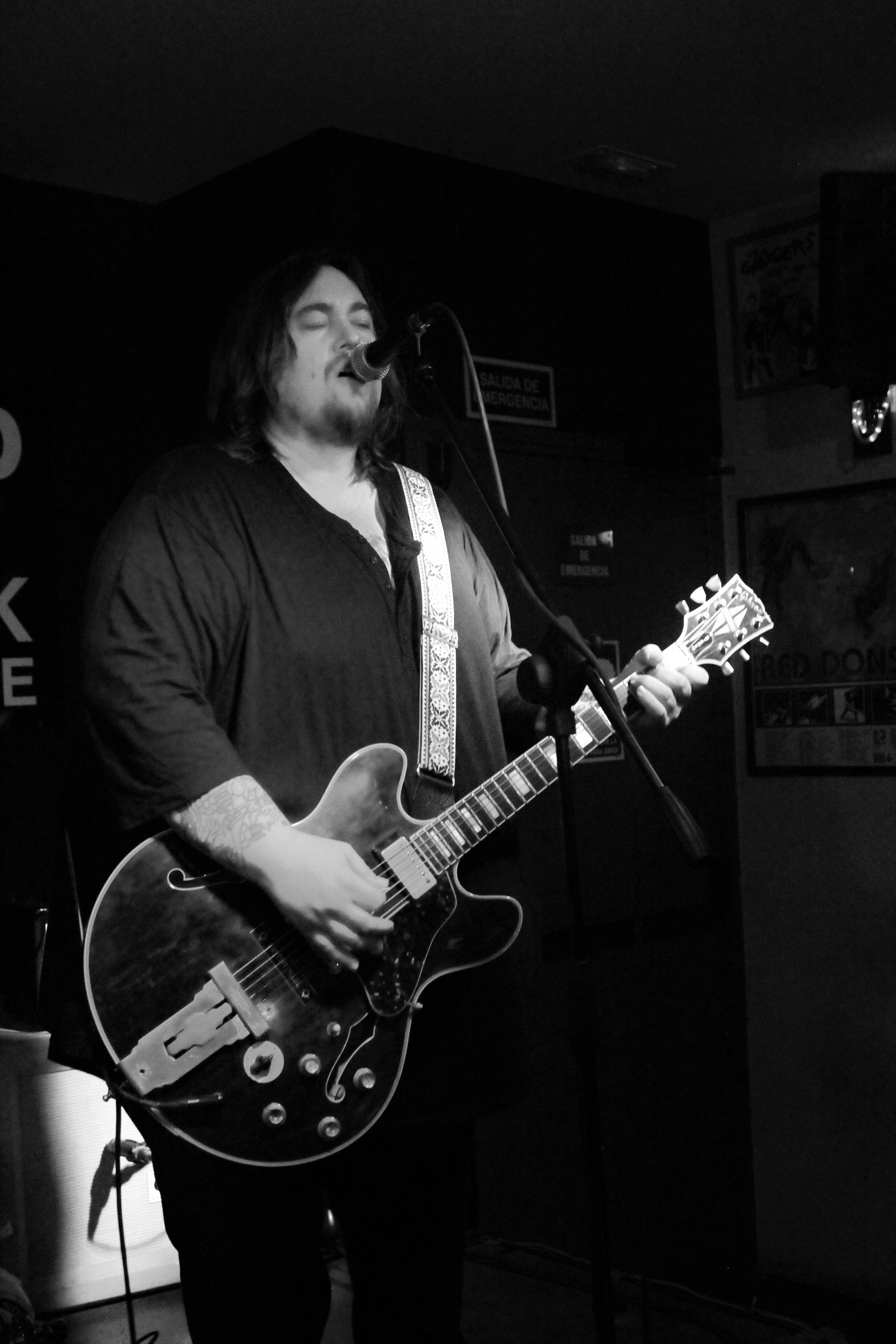 Johnny Casino, australian rock singer (Madrid, Rock Palace; 2013)